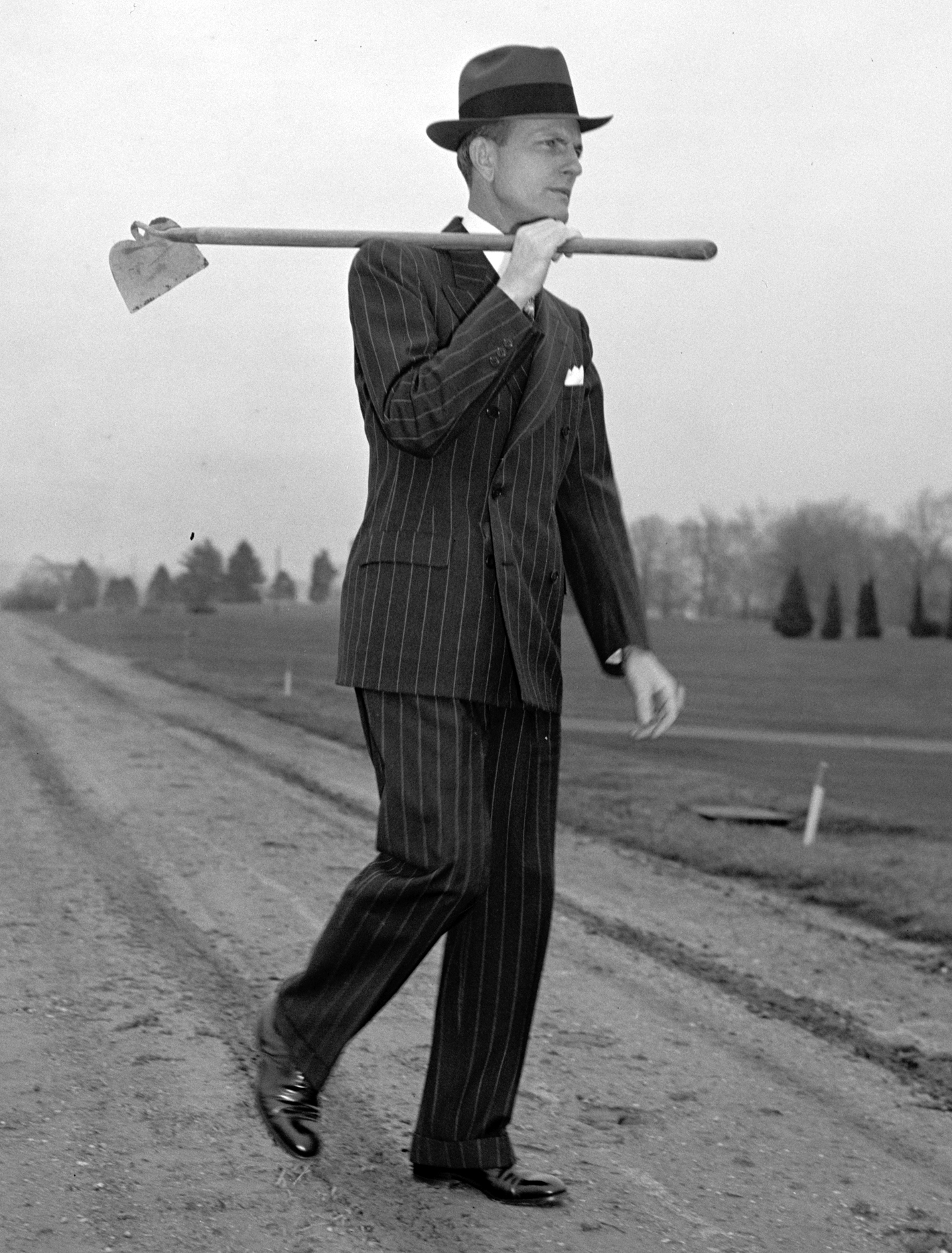 Newt V. Mills, US Representative from Louisiana, with a hoe symbolizing his profession as a cotton planter